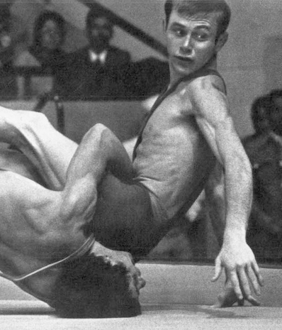 Gheorghe Berceanu vs Vladimir Zubkov at the 1972 Olympics